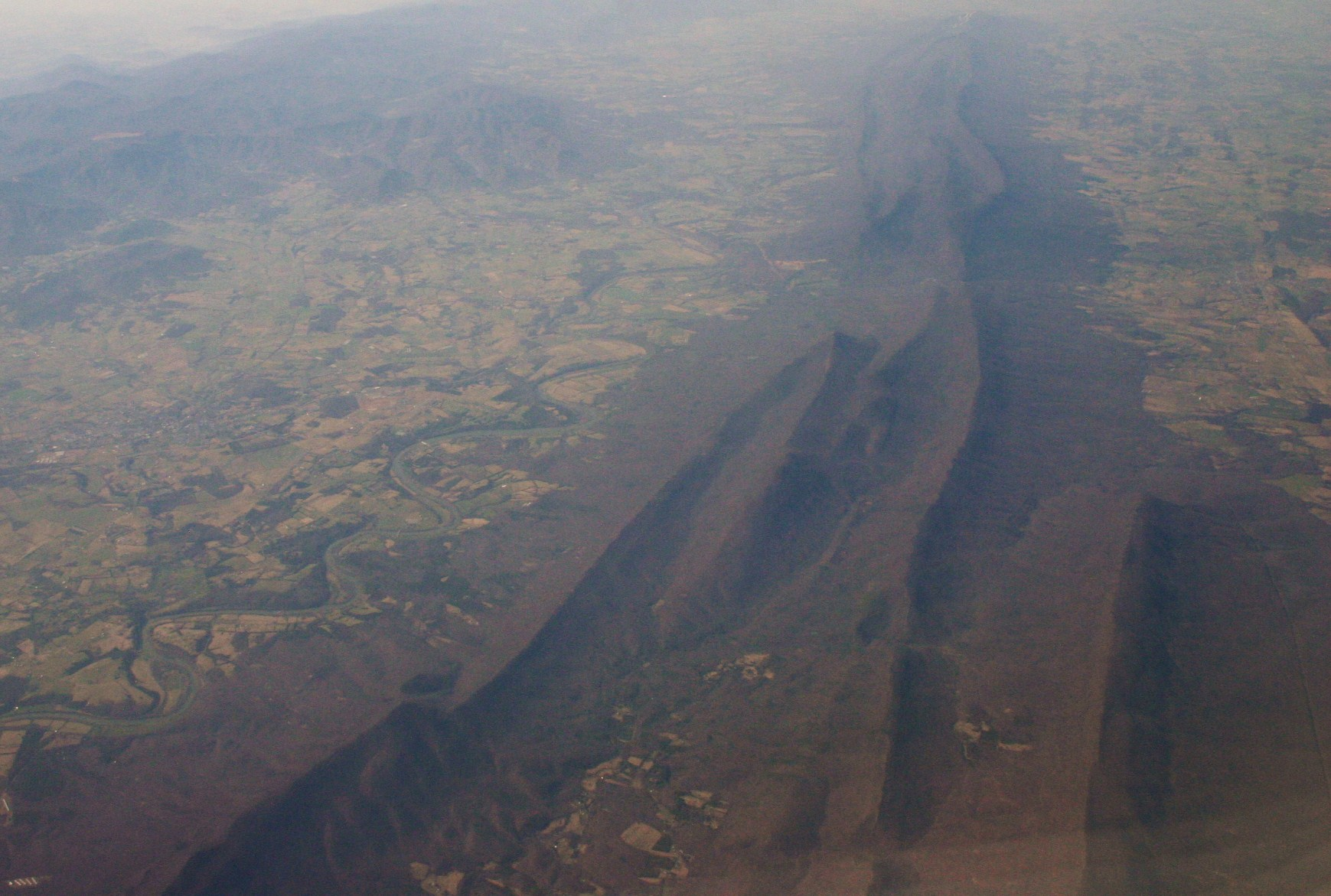 Oblique air photo of Massanutten Mountain, Shenandoah and Rockingham Counties, Virginia, looking southwest. Uploaded by James Stuby.